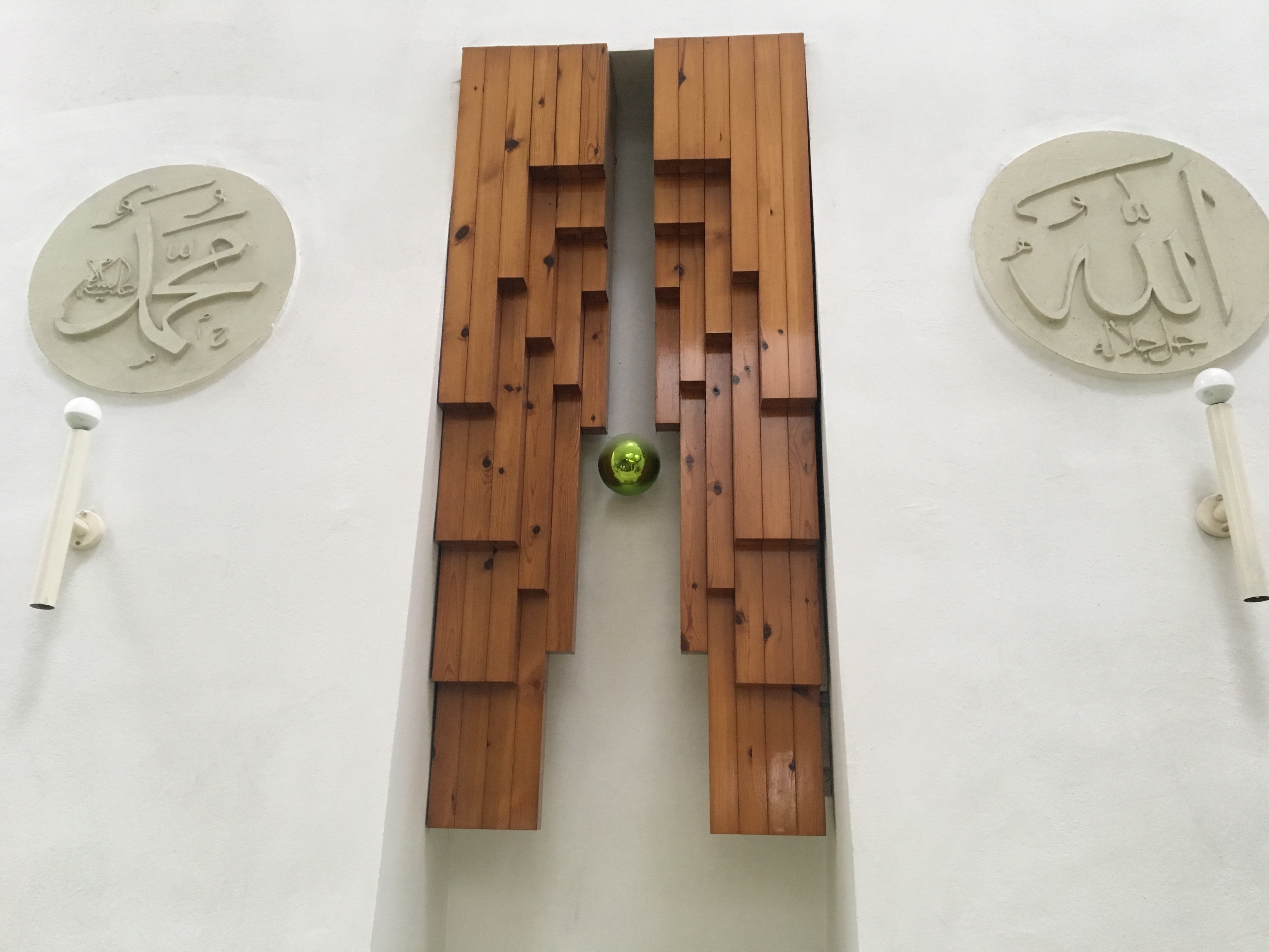 Šerefudin's White Mosque wooden mihrab